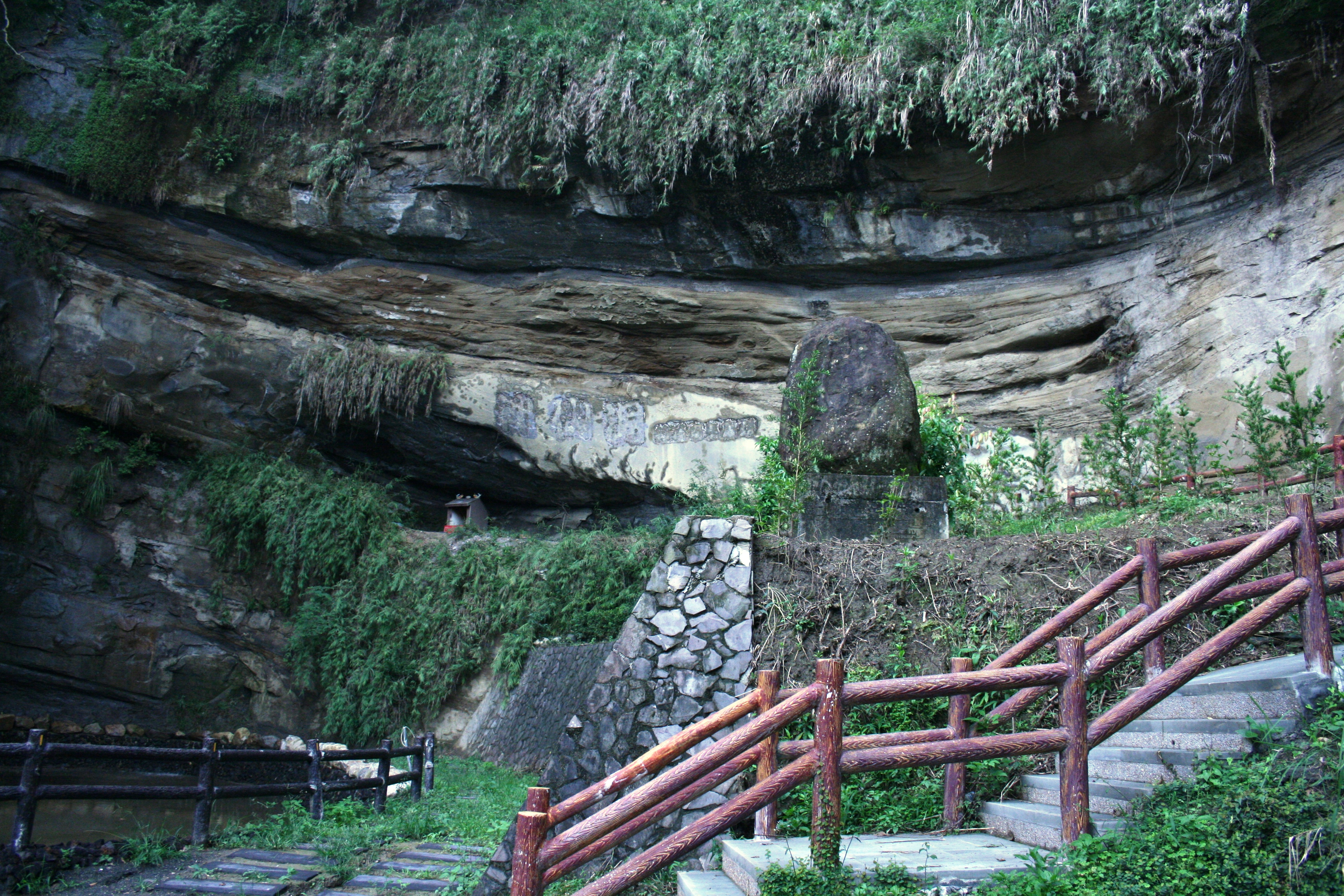 The dry waterfall is called "Shenxian Waterfall", it's located at Shenxian Valley in Jiji, Taiwan.